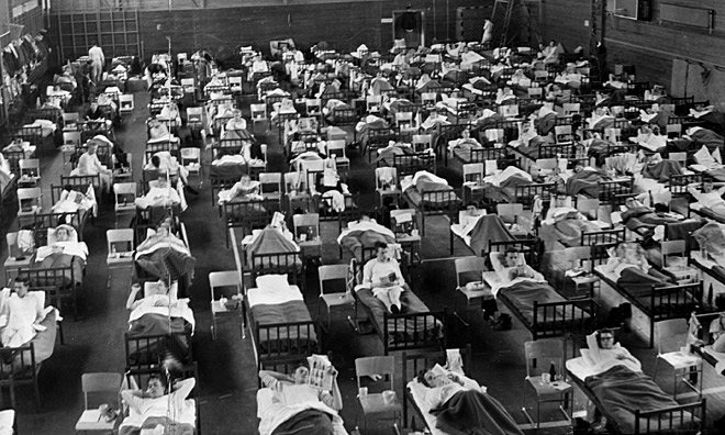 168 sick conscripts by asian flu in a sport arena att F 21 in Luleå. Picture was taken in 1957.